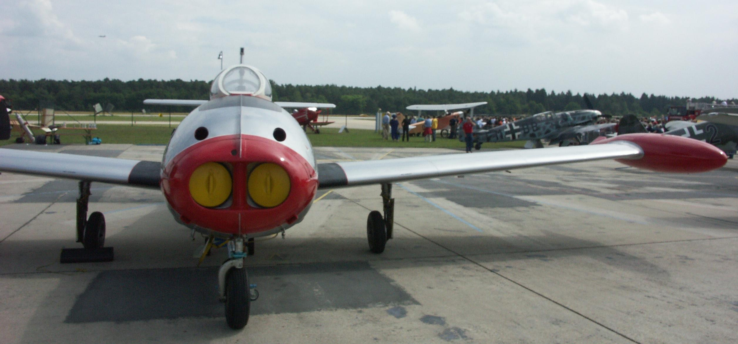 Hispano Aviacion HA-200 Photo by Jean-Patrick Donzey